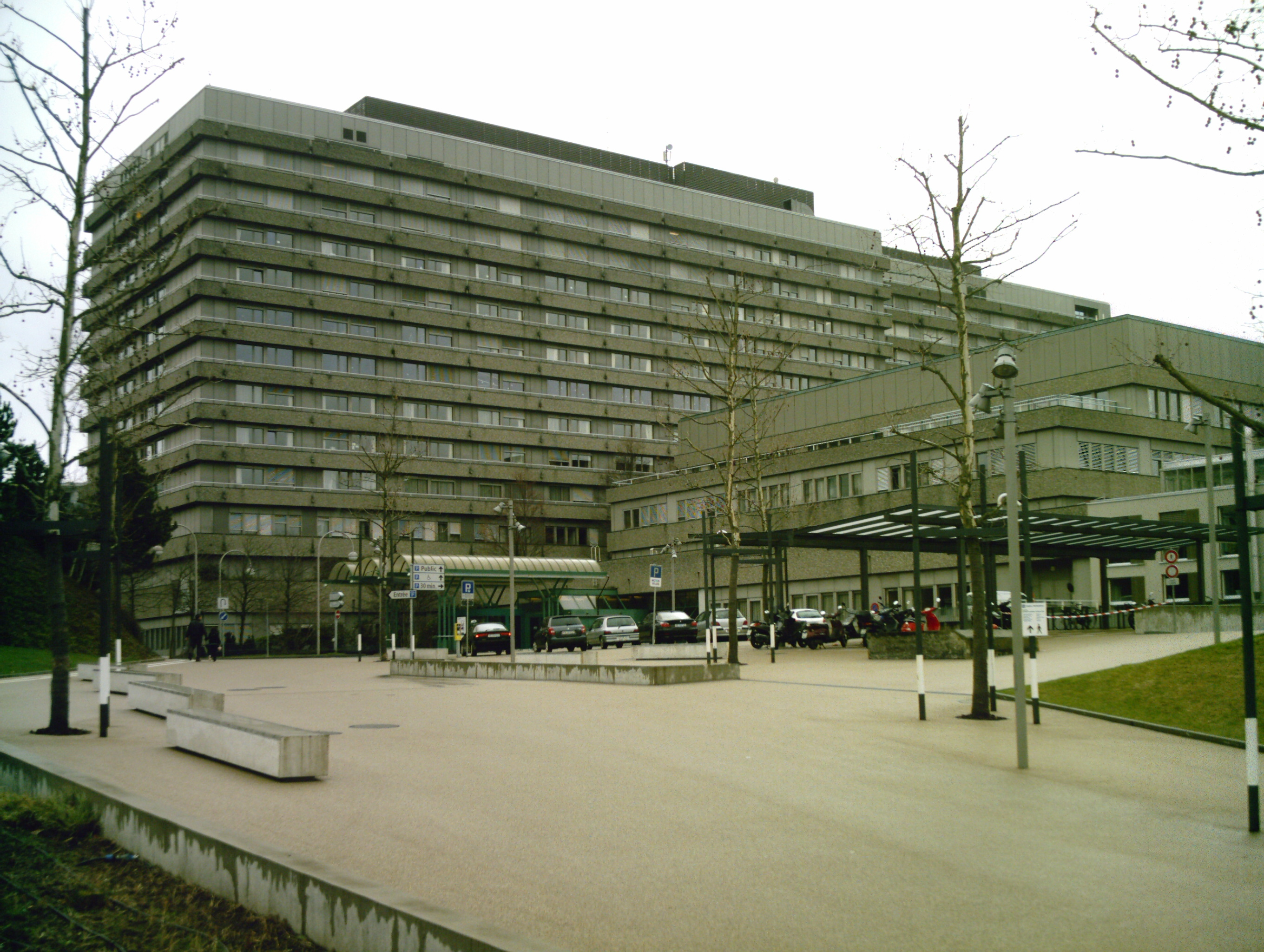 Main entrance of the Vaud University Hospital Center (CHUV) in Lausanne (Switzerland).